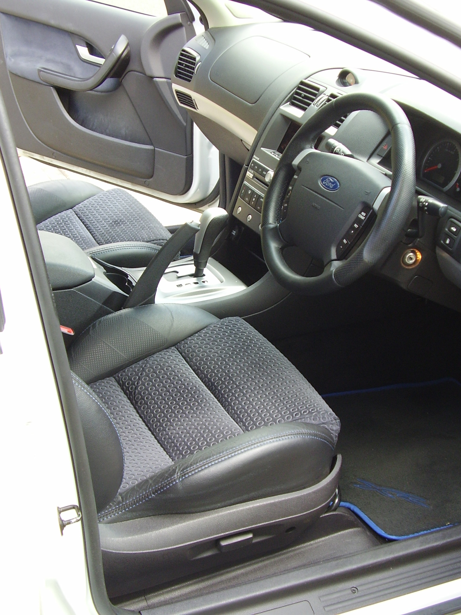 2004–2005 Ford Falcon (BA II) XR8 sedan interior, fitted with luxury pack.